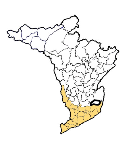 Amalapuram revenue division in East Godavari district